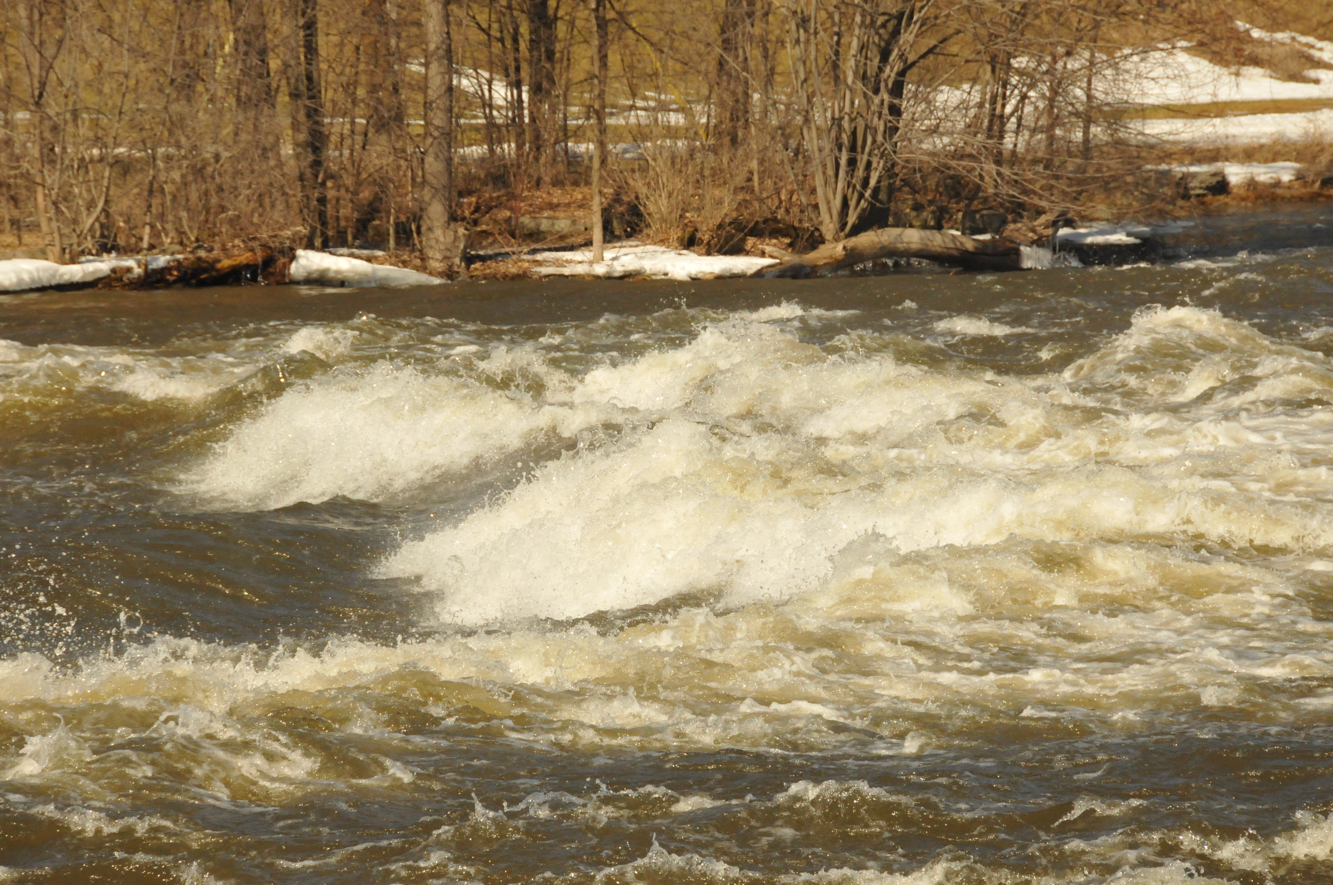 Spring melt on the Mississippi River in Pakenham, Ontario (Mississippi Mills).